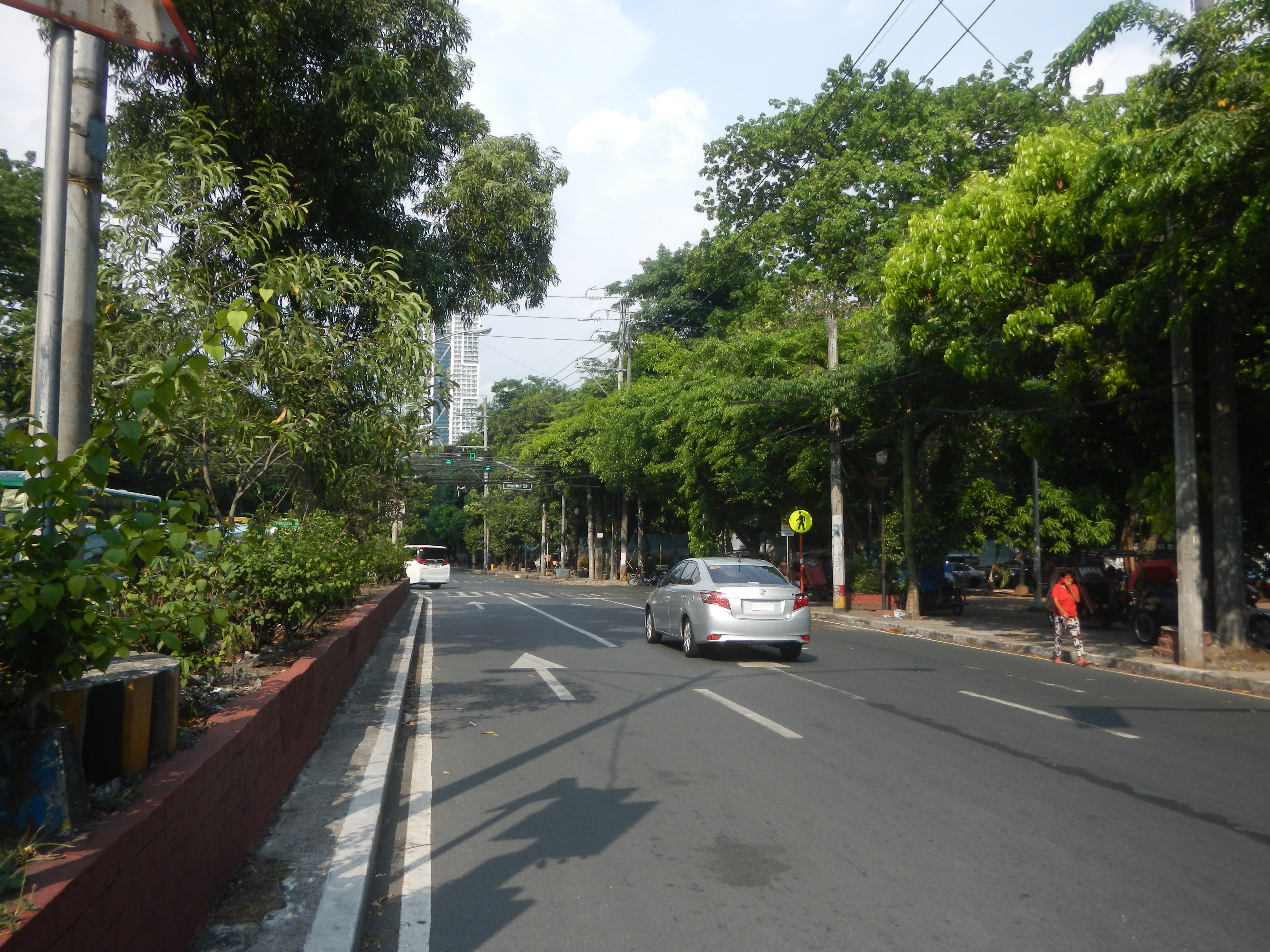 Marcelo H. del Pilar monument in Malate, Manila from Pedro Gil LRT Station Pedro Gil Street corner Taft Avenue in Barangays 675 & 679, Zone 74, 687, Zone 75, District V, Ermita, Malate and Paco, Manila; Robinsons Place Ermita Manila 14°34'35"N 120°59'2"E Robinsons Place Manila Padre Faura Street 14°34'42"N 120°58'59"E Padre Faura Street corner Del Pilar Street (Note: Judge Florentino Floro, the owner, to repeat, Donor Florentino Floro of all these photos hereby donate gratuitously, freely and unconditionally all these photos to and for Wikimedia Commons, exclusively, for public use of the public domain, and again without any condition whatsoever).